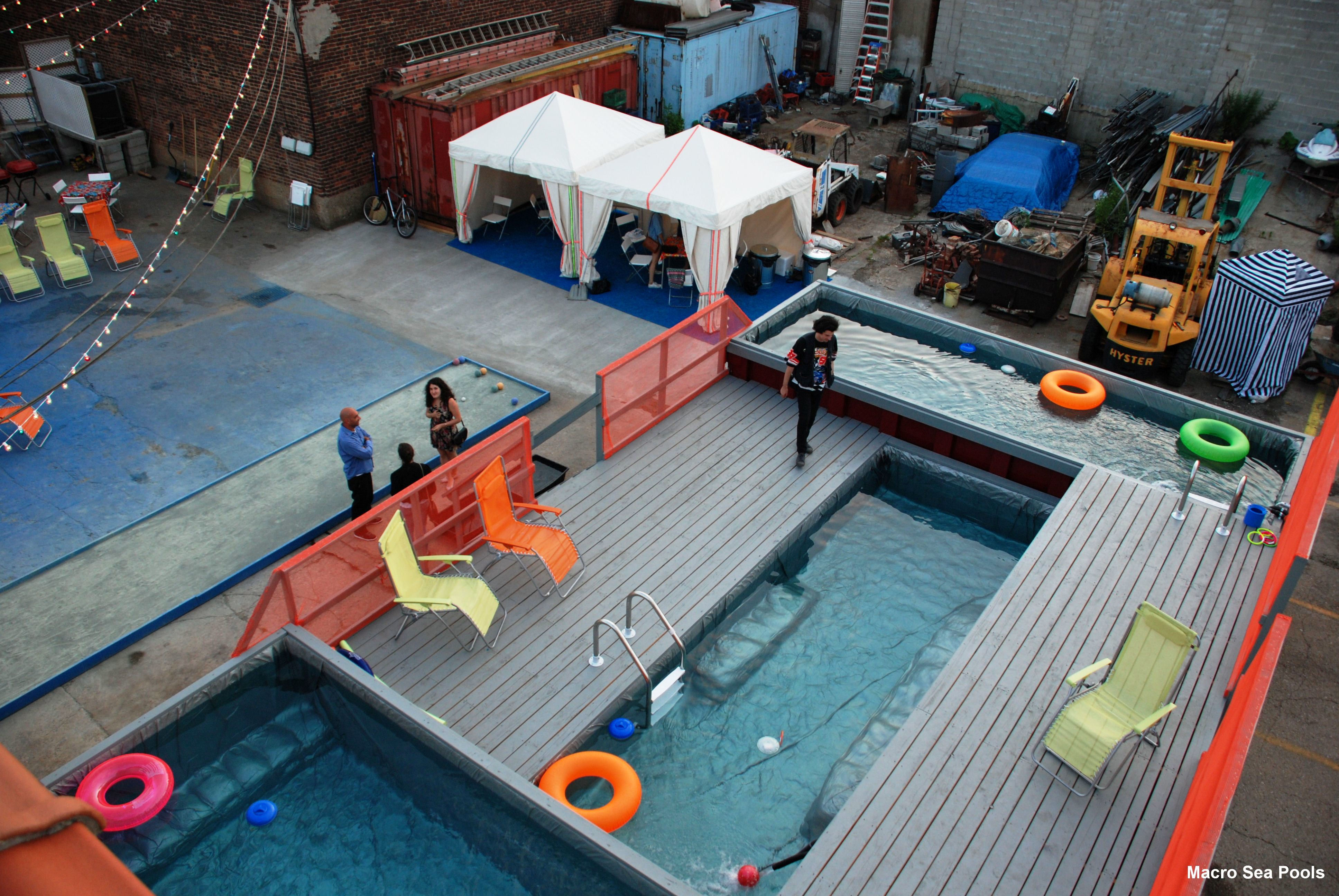 Overhead view of Macro Sea's 2009 Dumpster Pool project